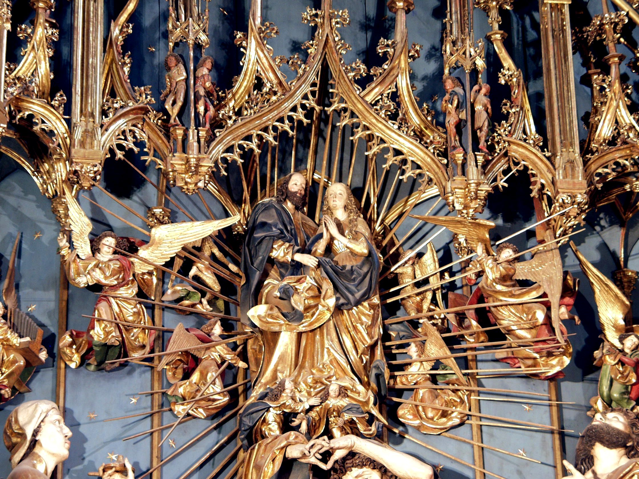 Altar of Veit Stoss, Center top, St. Mary's ascension, St. Mary's Church, Krakow, Poland